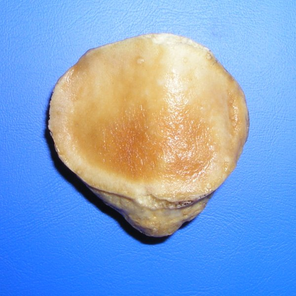 Patella posterior aspect Shows the posterior aspect of left human patella.